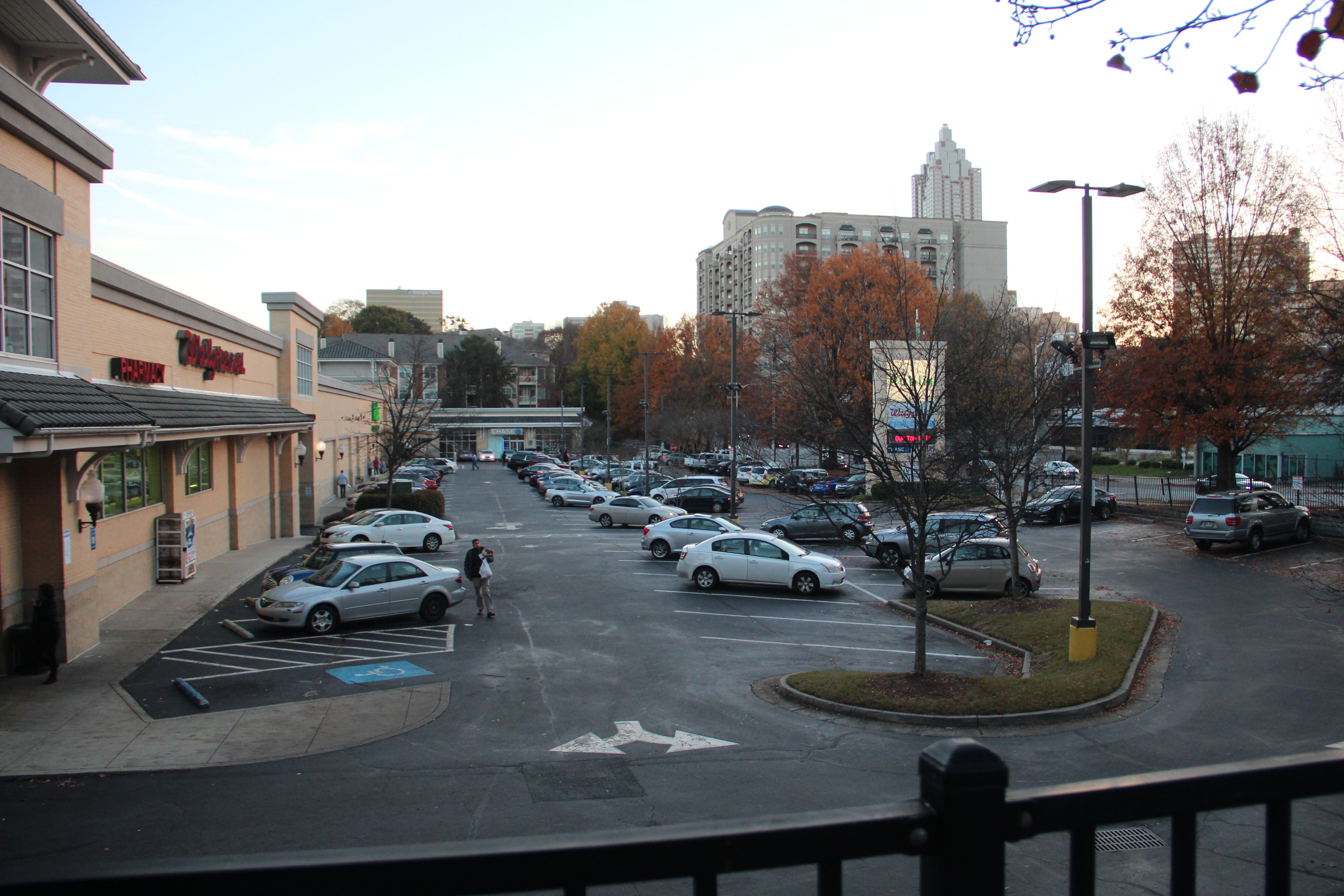 Former Rio Shopping Center site